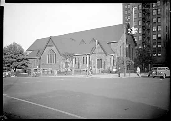 Christ Church Cathedral, Vancouver, British Columbia, Canada